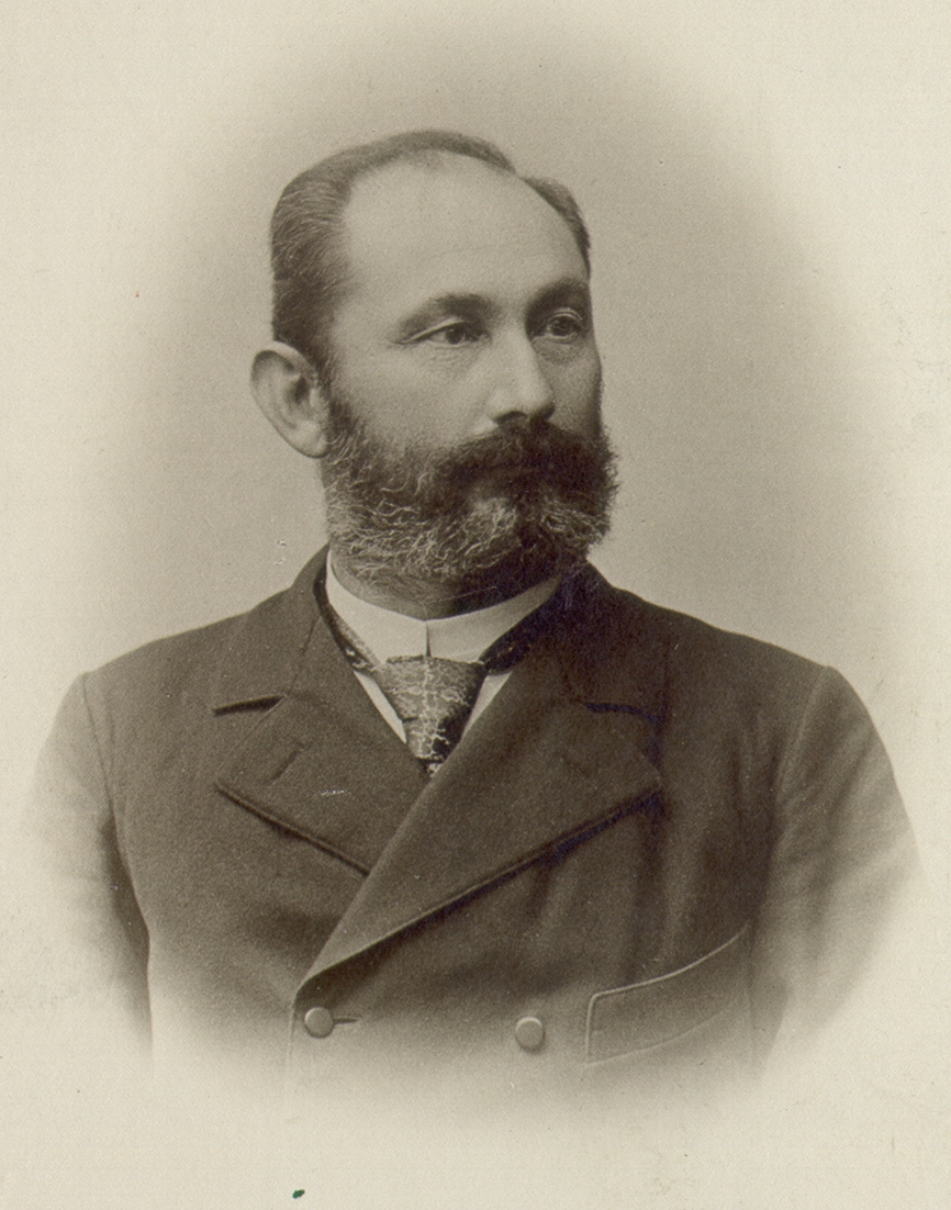 Jakob Sket (1852-1912), slovene writer.